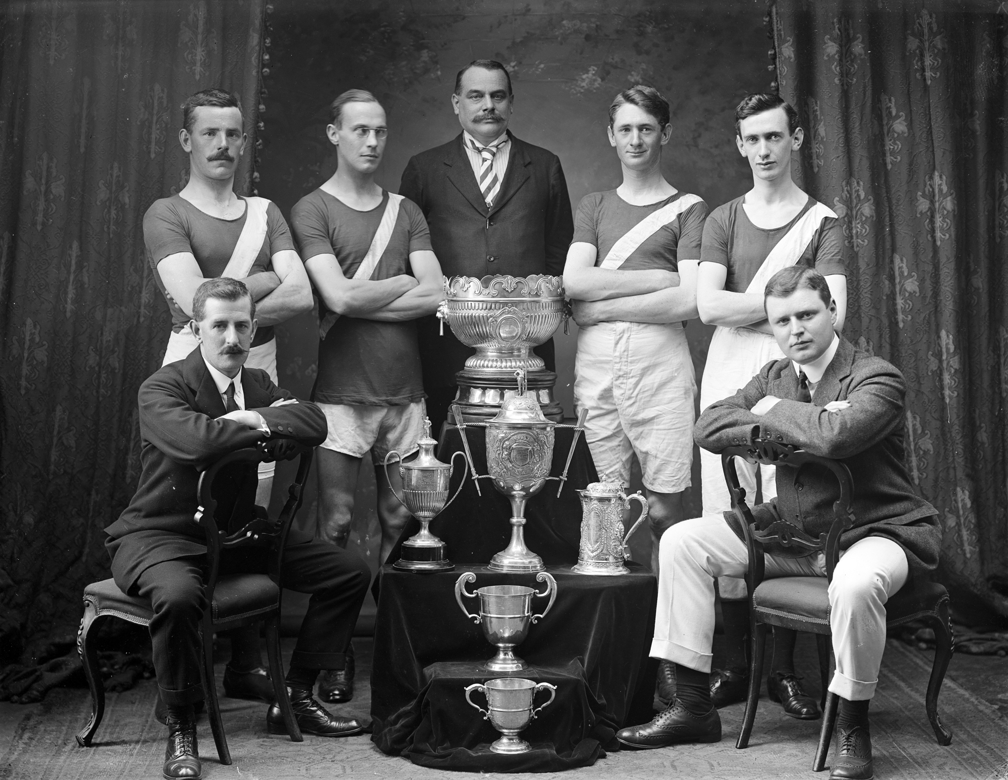 Celebrating the haul of trophies won by W.B.C. Senior Four, as we thought they were. However, swordscookie doubts that they were Seniors: "If these guys won a Maiden Fours trophy then they were not a Senior four as listed. It was possible to row above your grade at that time in the more provincial regattas, if there was no entry for the senior levels then a crew could go "pot-hunting" and gather a senior trophy against little or no opposition. However they were then forever locked into the senior grade and could no longer row "Maiden or Junior"! The big trophy in the centre rear with the seven names is most certainly not a fours trophy but this four could have been part of an eight who won it." The gentleman seated on the left is Austin Farrell, 1872-1934, great uncle of Brendan J. Grogan. Promised Brendan that I'd upload this, and we're hoping that others in the photo can be identified. Certainly the chap seated on the right looks like an older version of the chap also seated on the right (again with Austin Farrell) in this photo from 18 May 1906. A really young Austin Farrell appears as Cox in this photo. Date: Circa 1915? NLI Ref.: P_WP_2562